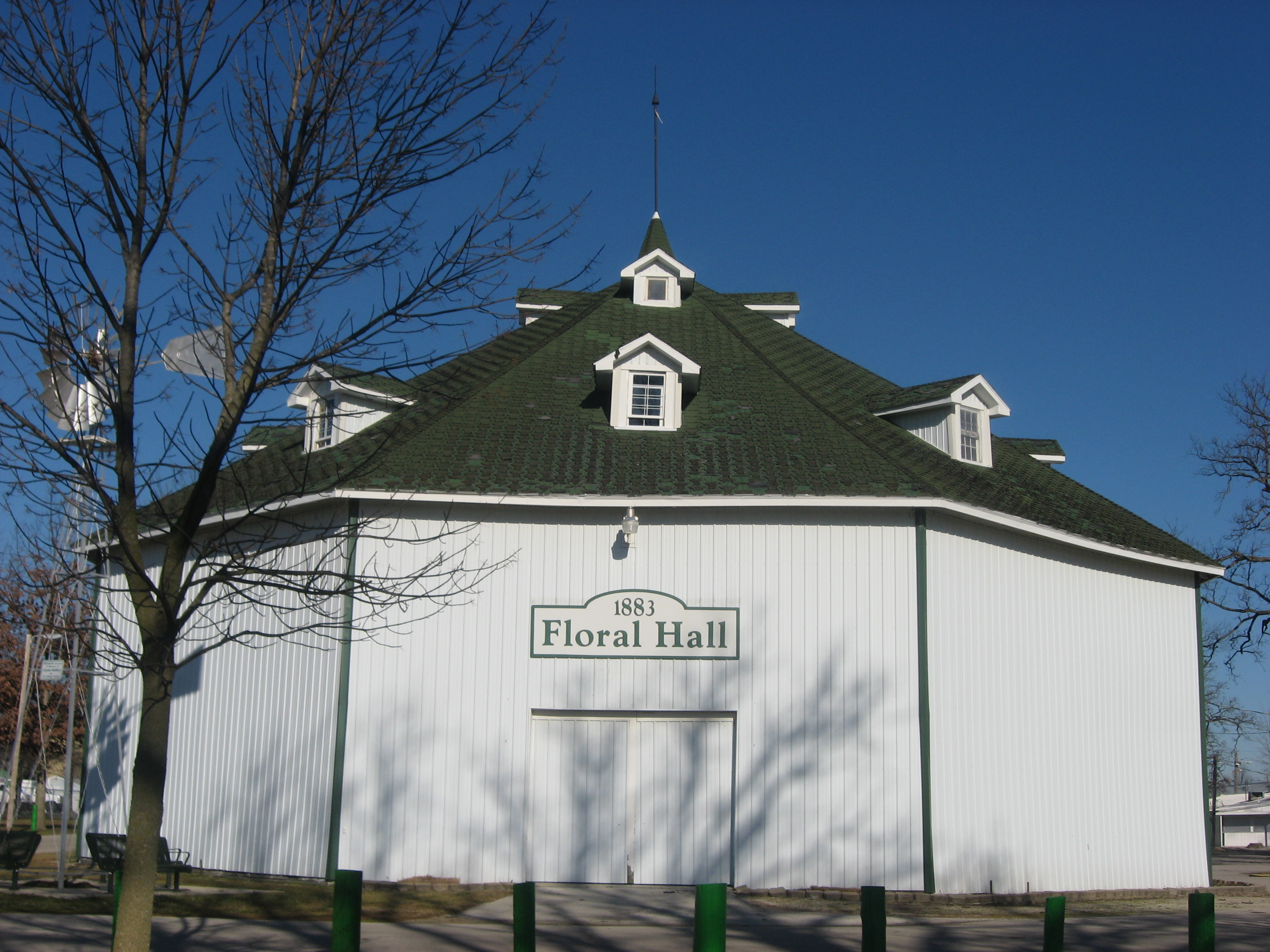 Front of the Floral Hall, located on the western edge of the Jay County Fairgrounds in Portland, Indiana, United States. Built in 1891 (not 1883), it is listed on the National Register of Historic Places.